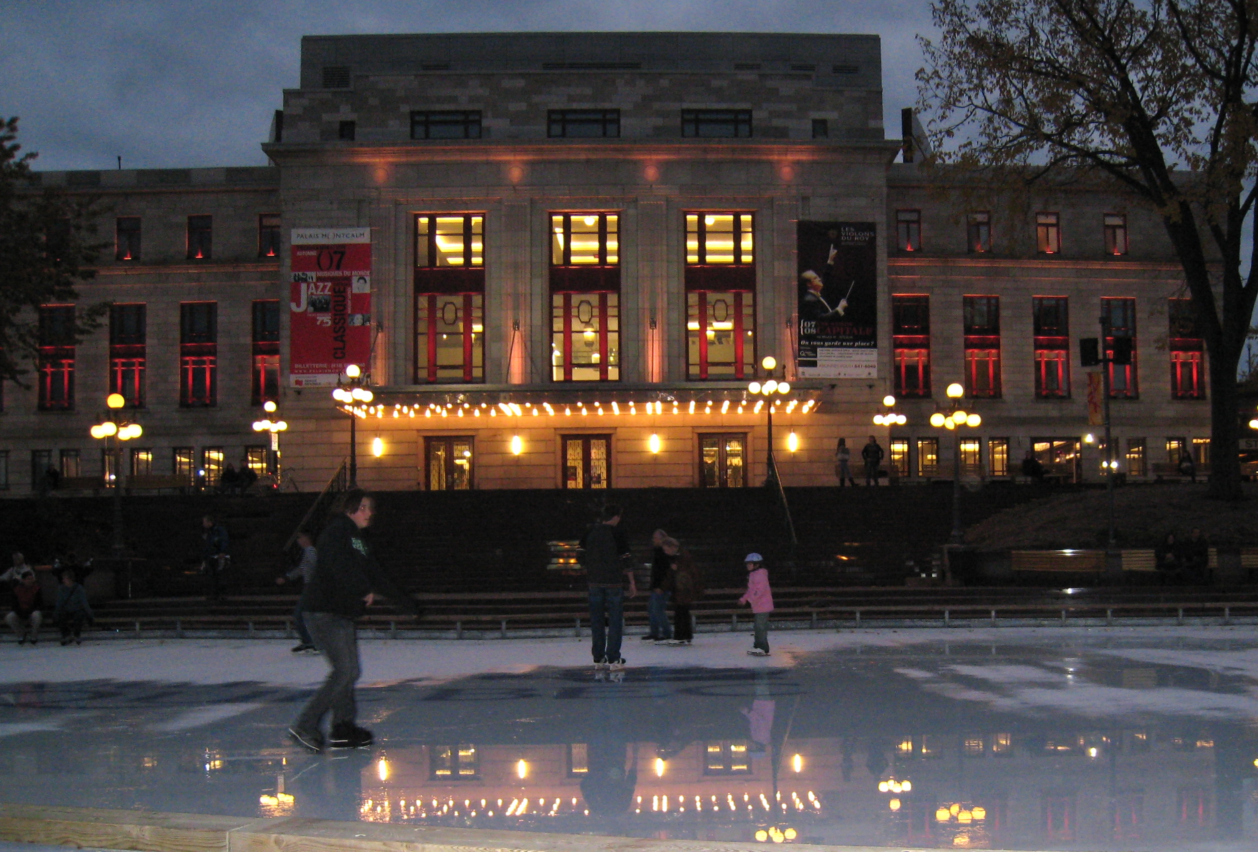 The Palais Montcalm, a theatre in front of the ice rink of the Place d'Youville, Quebec City, Quebec, Canada, October 2007.